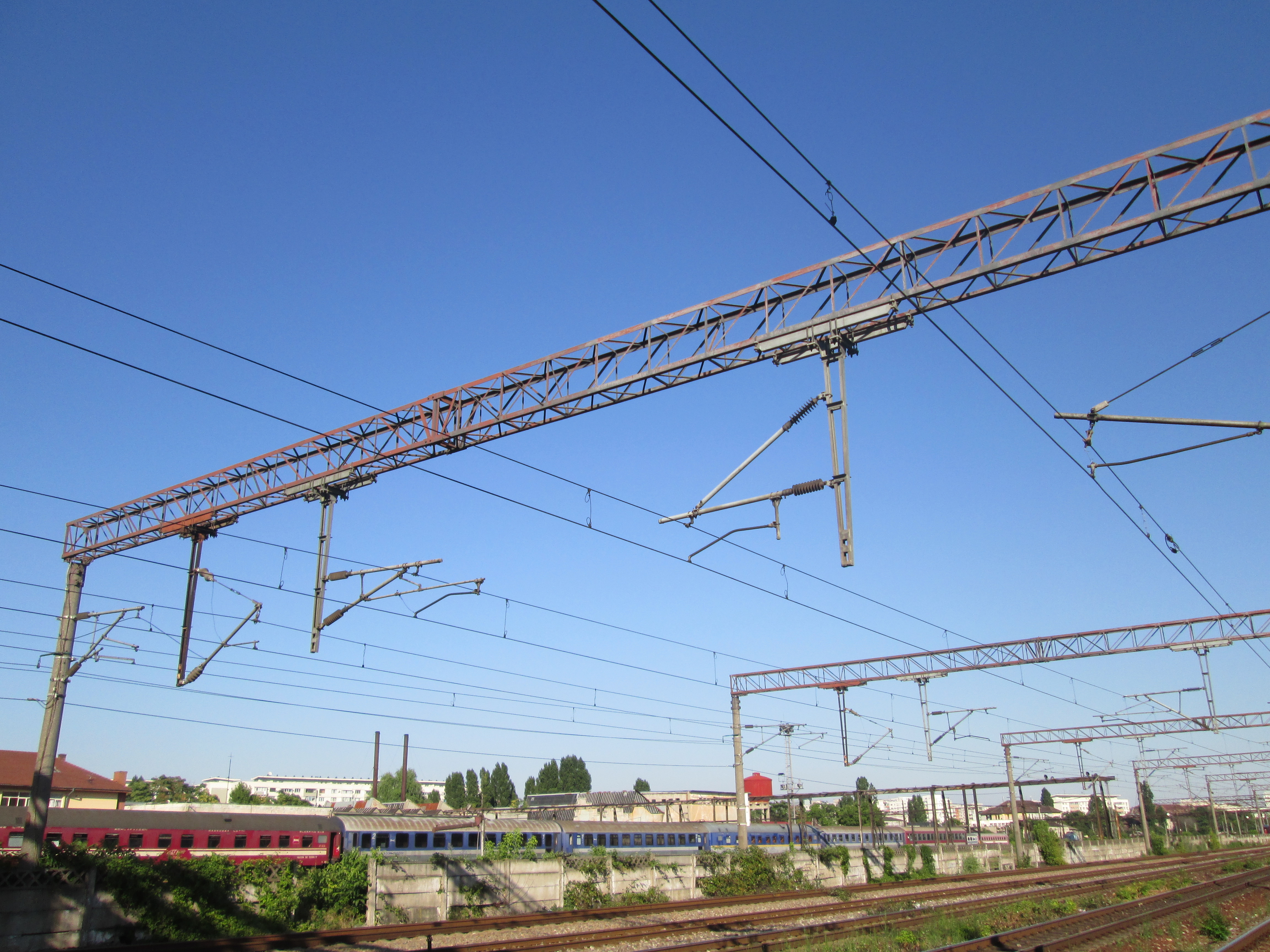 OHLE Equipment at Basarab station, Romania